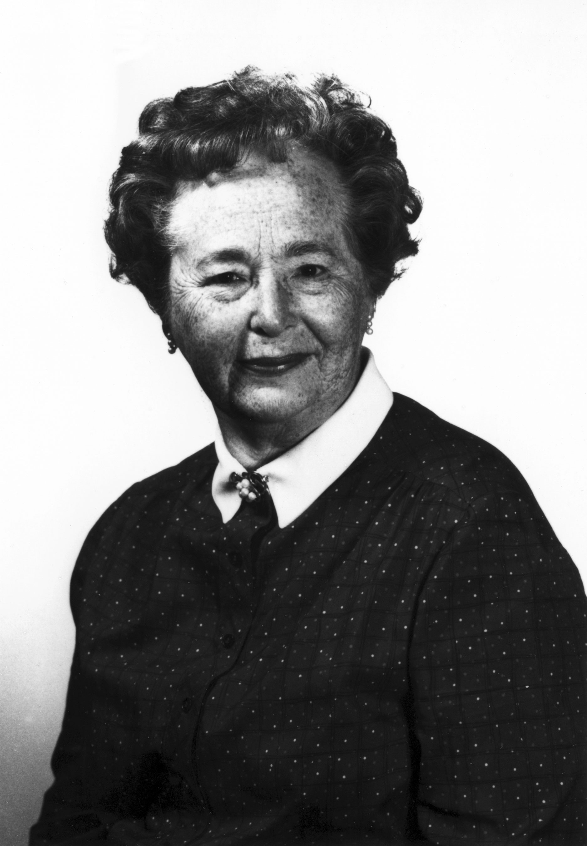 Title: Portrait: Gertrude Elion Description: Portrait of Gertrude Elion, former receipient of Noble Prize in Physiology or Medicine related to transplantation. Subjects (names): Elion, Gertrude Topics/Categories: Historical -- People National Cancer Institute -- People People -- Professional Type: B&W Source: Unknown Author: Unknown Date Created: Unknown Date Added: 2/26/2010 Reuse Restrictions: None - This image is in the public domain and can be freely reused. Please credit the source and/or author listed above.